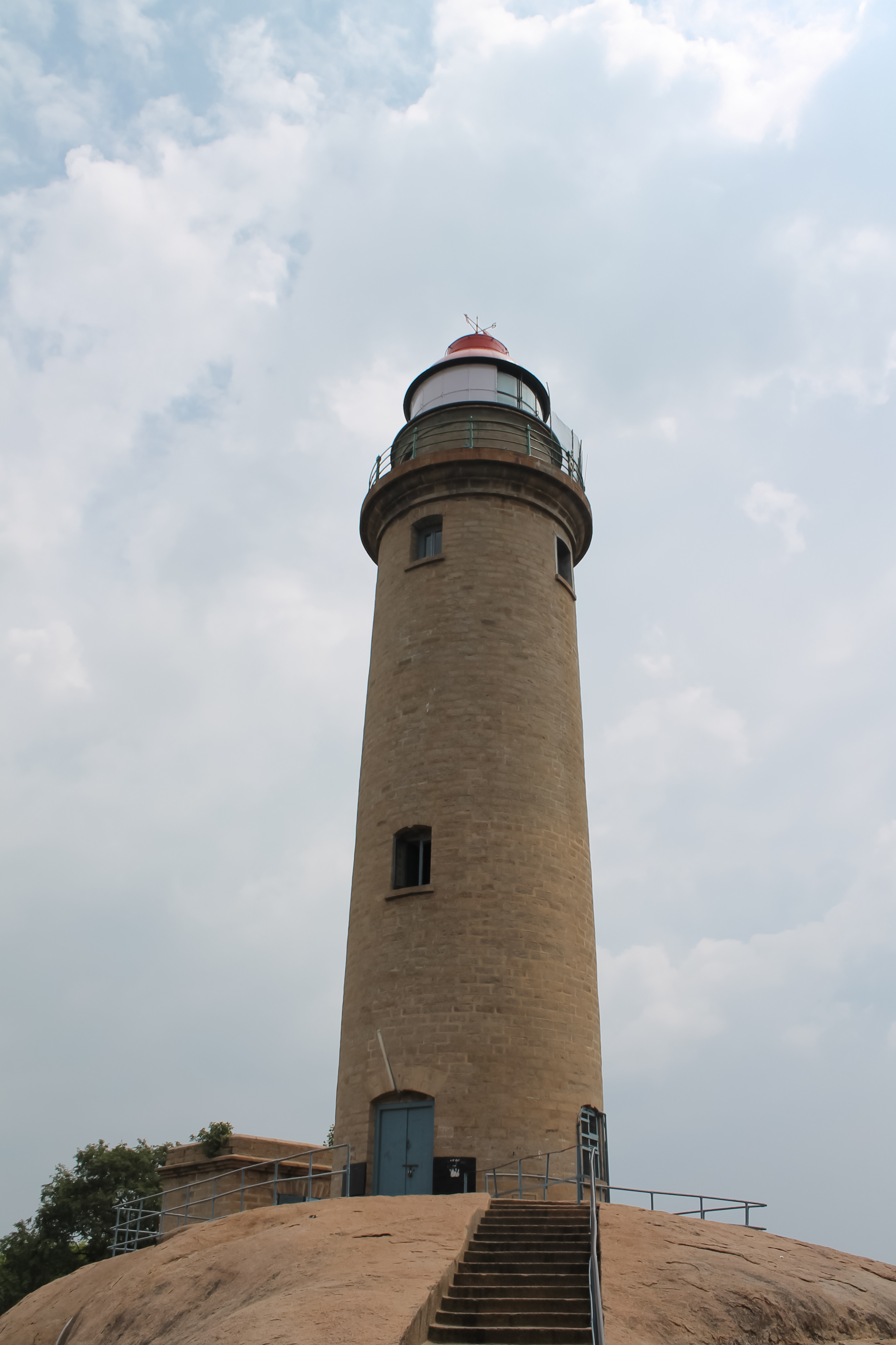 This lighthouse was built by British in 1900 and became fully functional in 1904. Lights were used to aid mariners since the 7th century at Mahabalipuram which was a major port during the reign of the Pallavas.